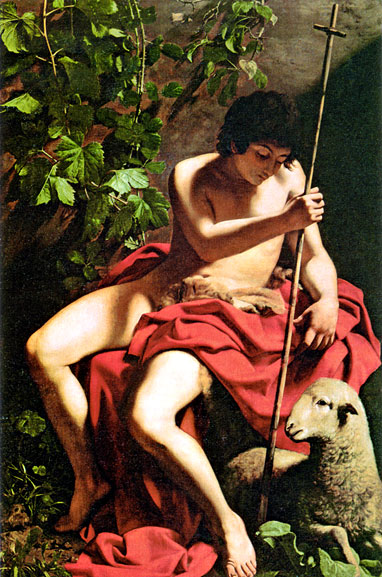 "John the Baptist" by Caravaggio (1571-1610), painted about 1598. Toledo, Museo del Tesoro Catedralico. Scanned from 'Caravaggio' by Gilles Lambert (pub. Taschen, 2000, ISBN 3-8228-6305-X). Believed free of copyright restrictions due to death of the artist over 100 years ago.